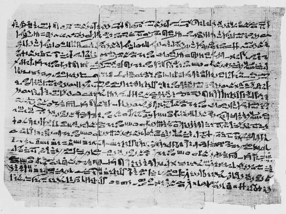 Papyrus Hearst, Plate 2